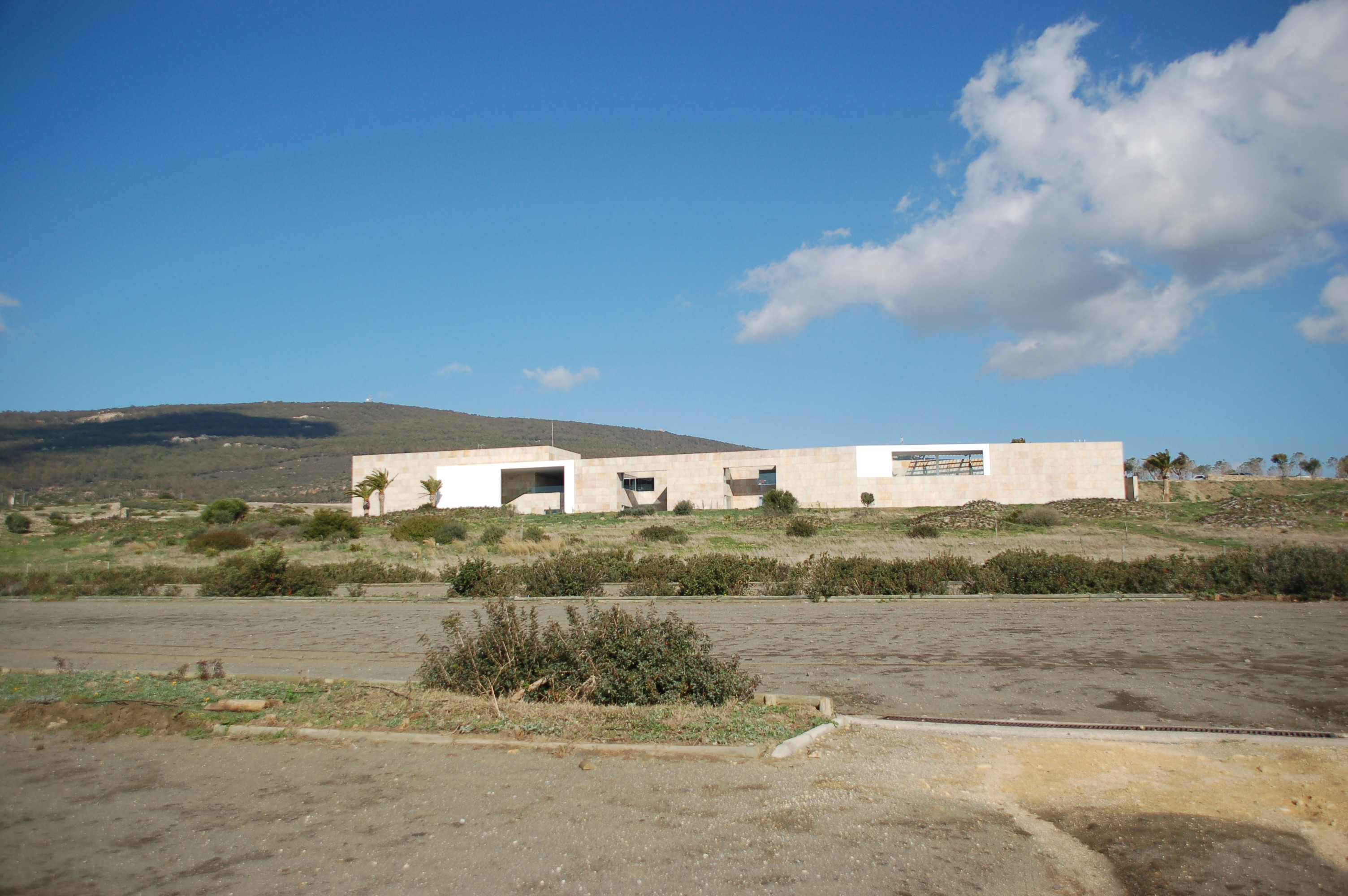 The historical museum in Bolonia, Cádiz, Spain